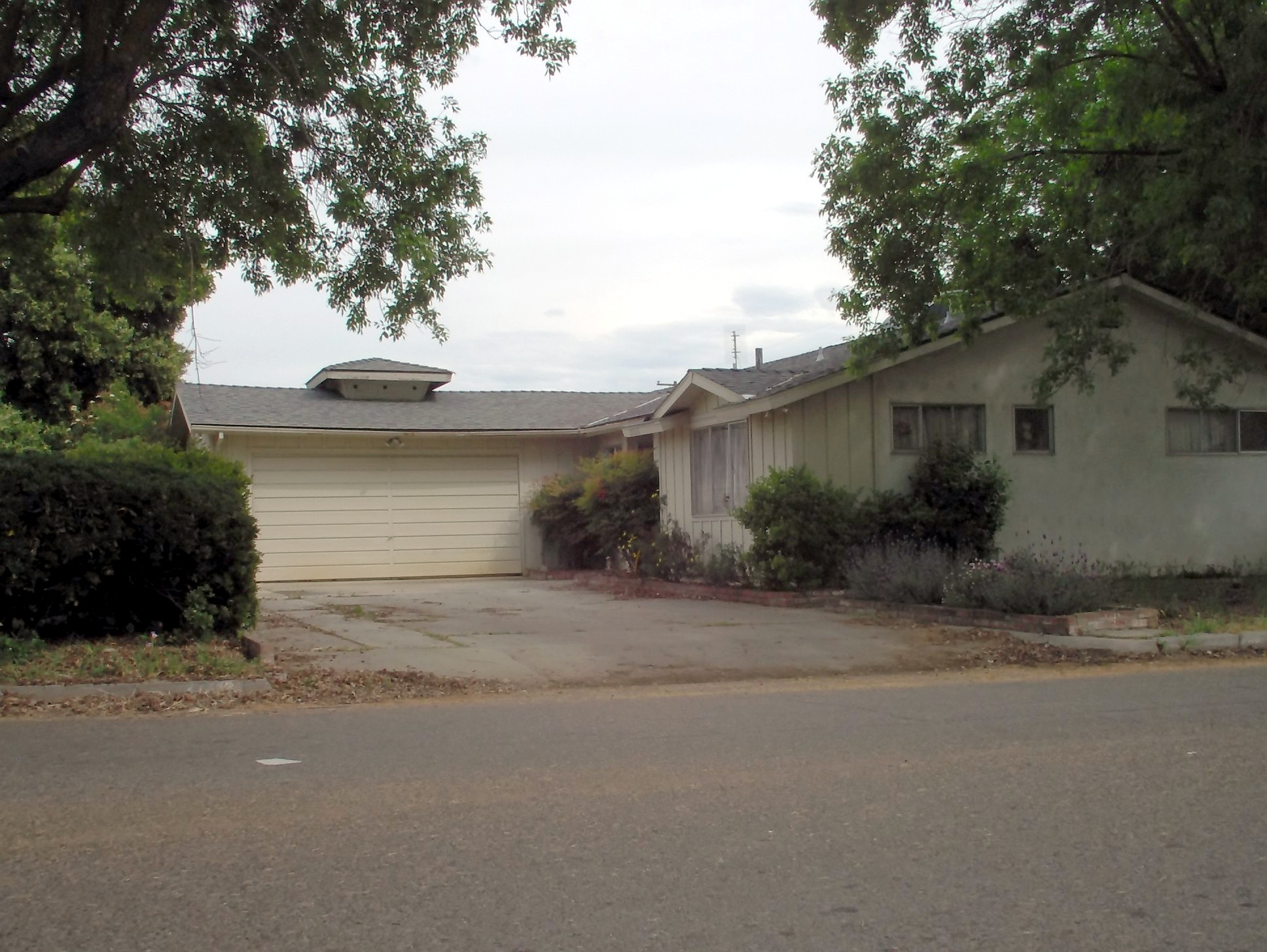 1350 square foot ranch style house built in mid 1950's in California. Note board and batten sides and dovecote over garage. Also notice the mature tree growth in this 50+ year old subdivision.